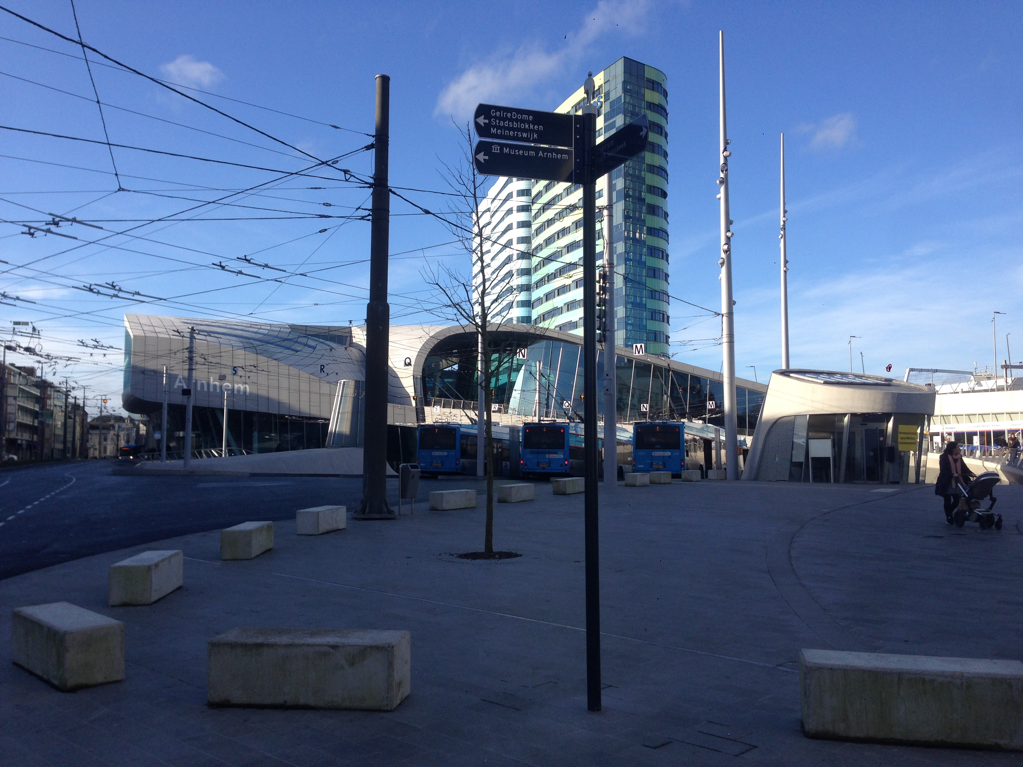 Arnhem Central